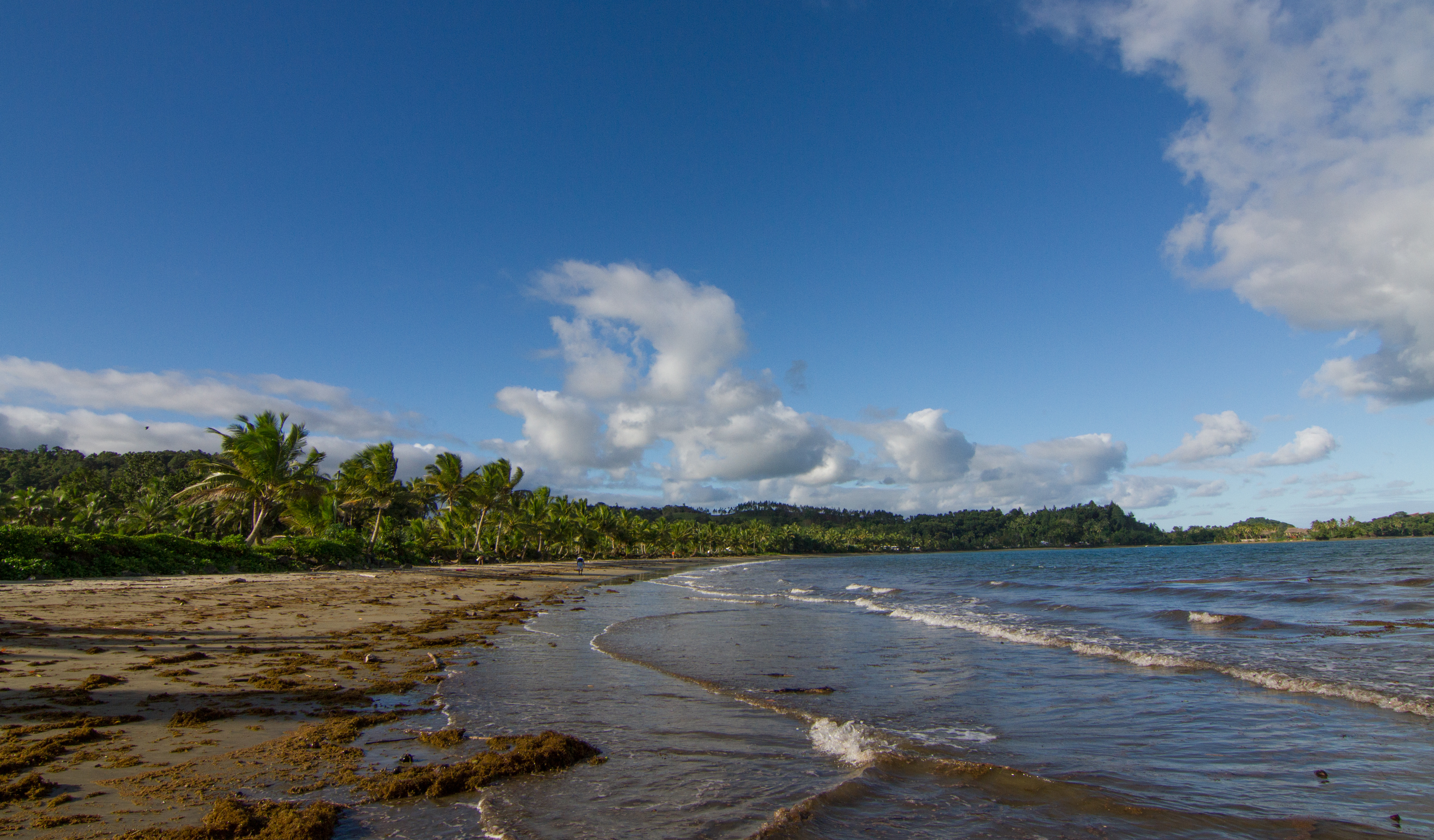 Beach near Navua, Fiji